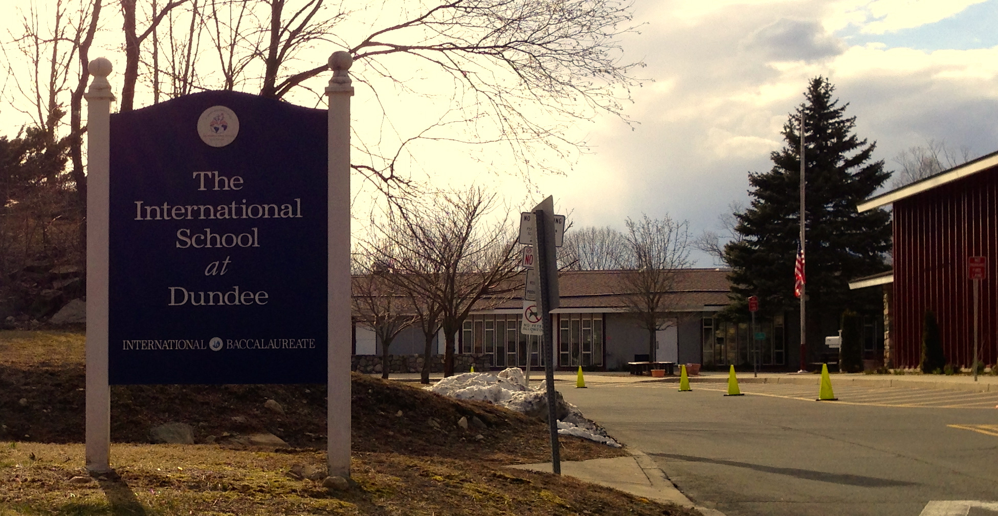 The front view of the International School at Dundee in Riverside, Connecticut.